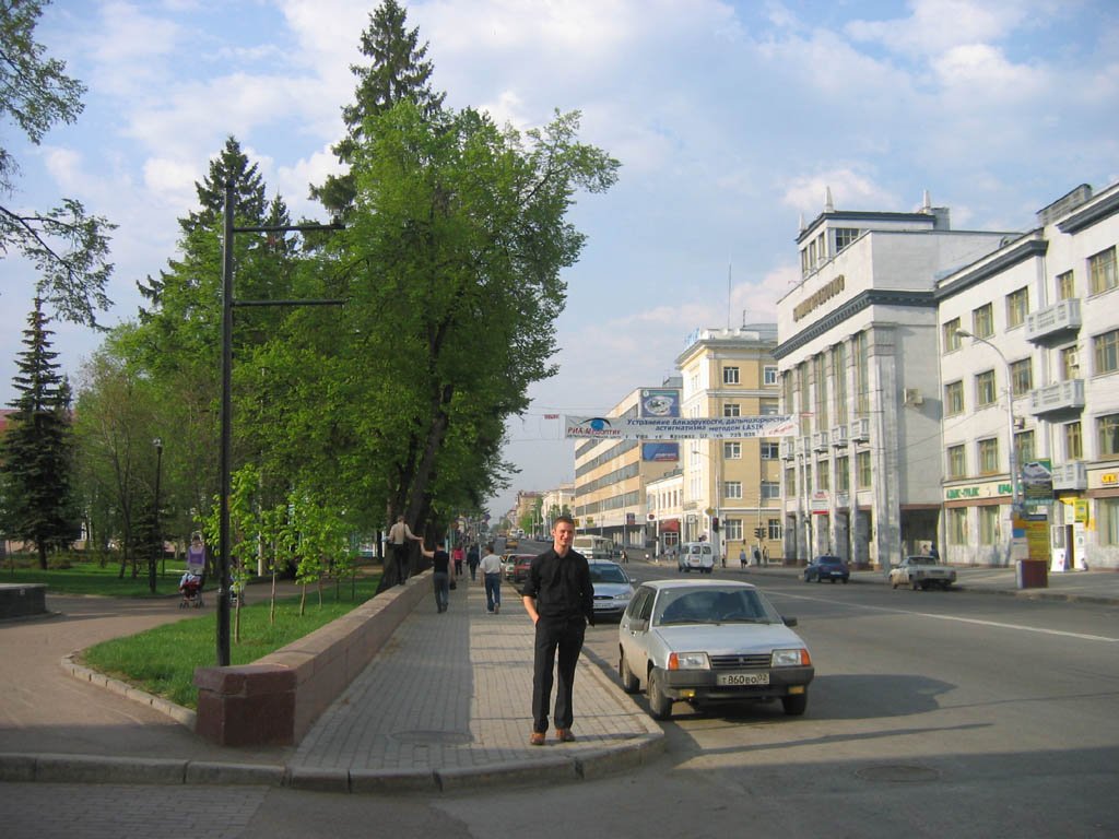 Lenin street, one of the main streets in Ufa, Russia